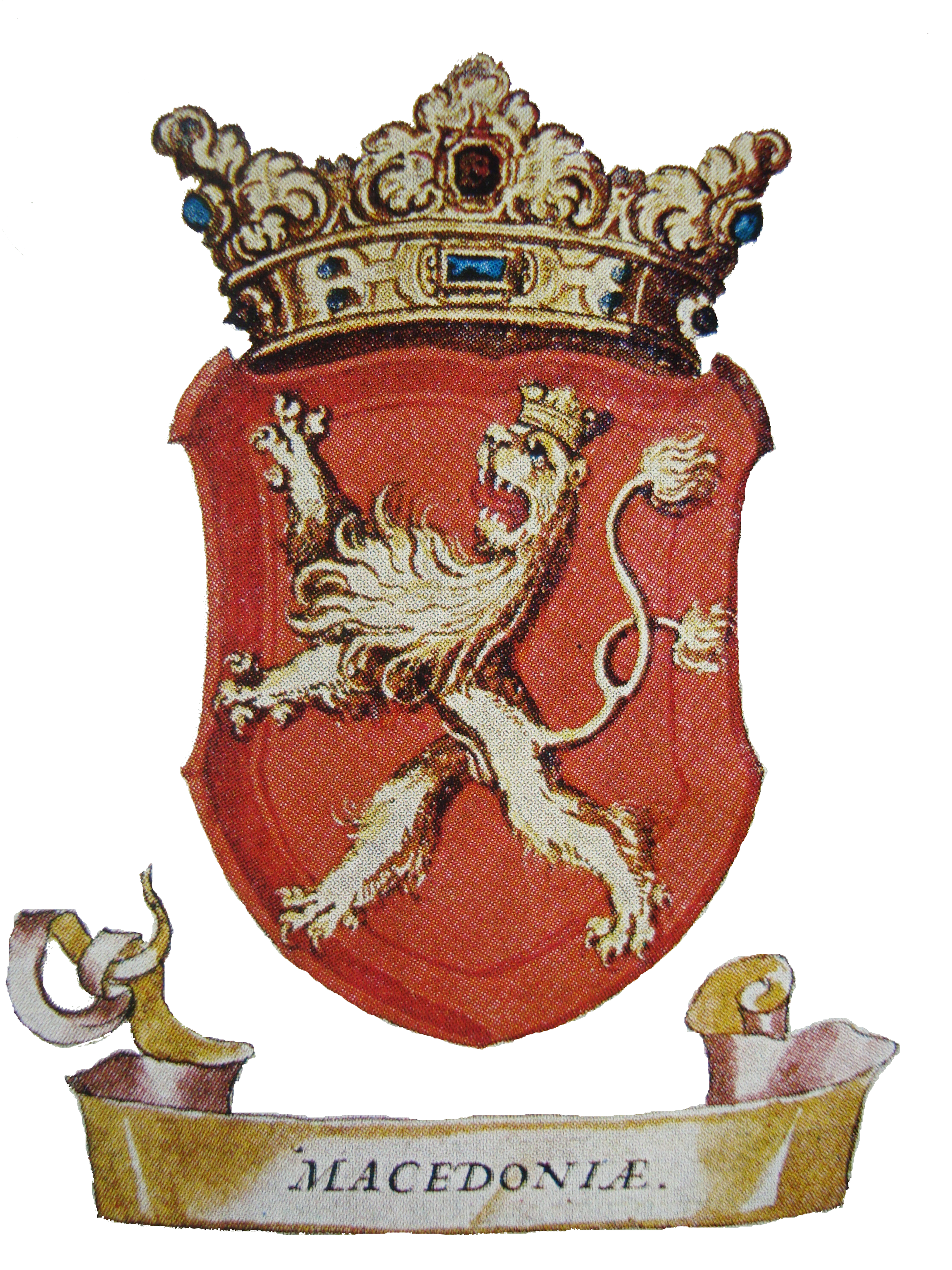 The coat of arms of Macedonia from 1620.